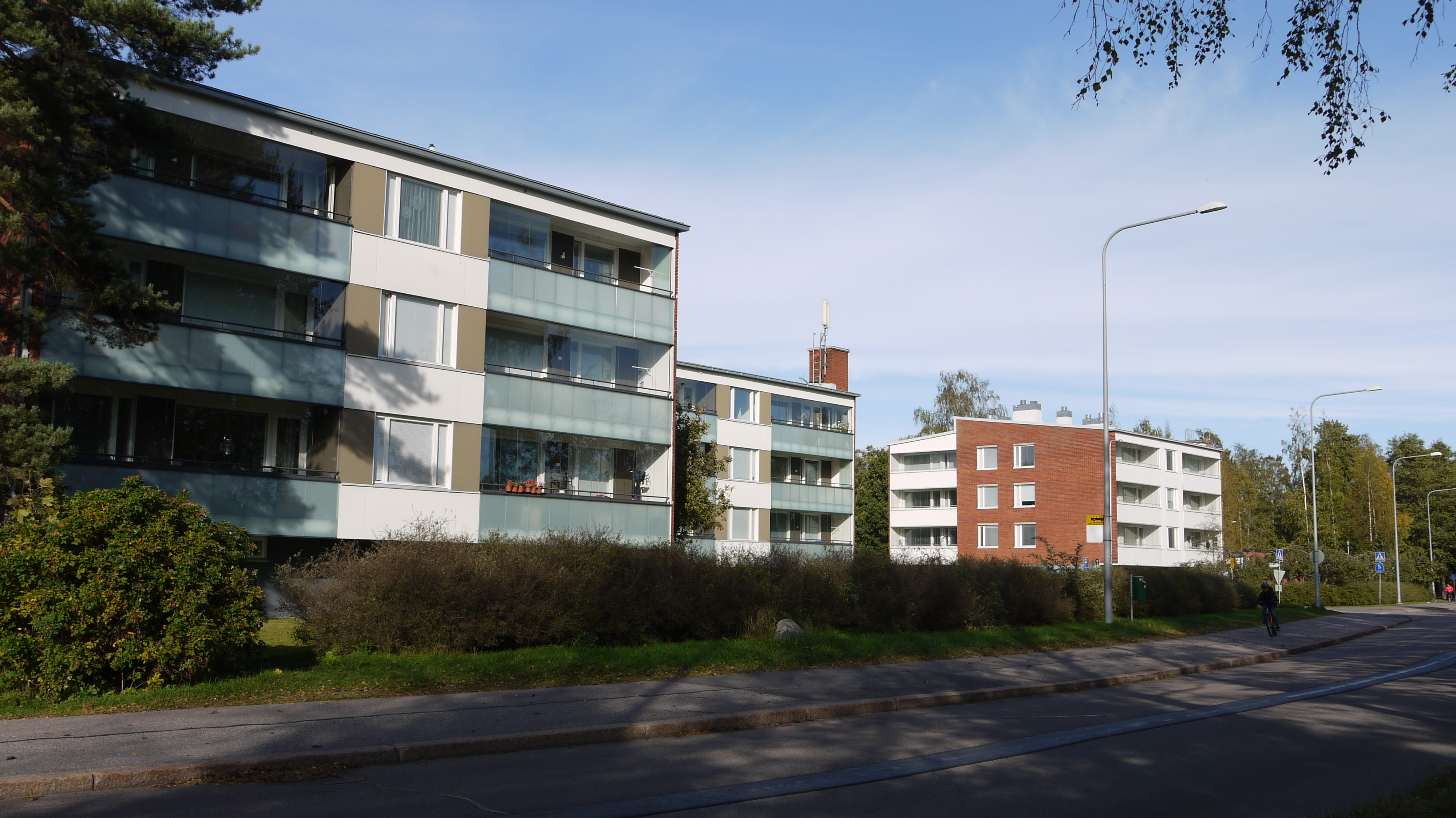 1960s apartment buildings in Haukilahti, Espoo